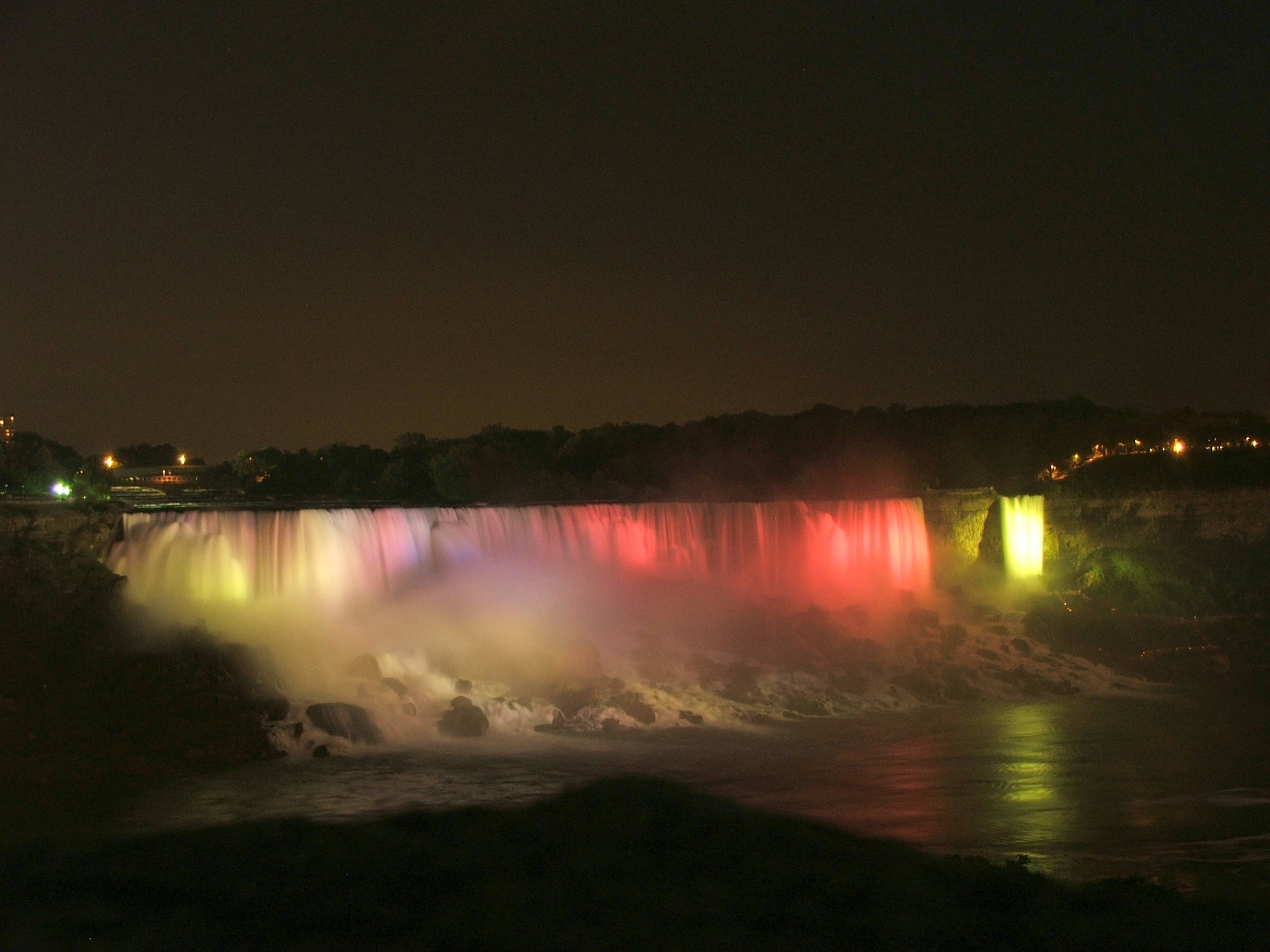 Niagra Falls at Night.